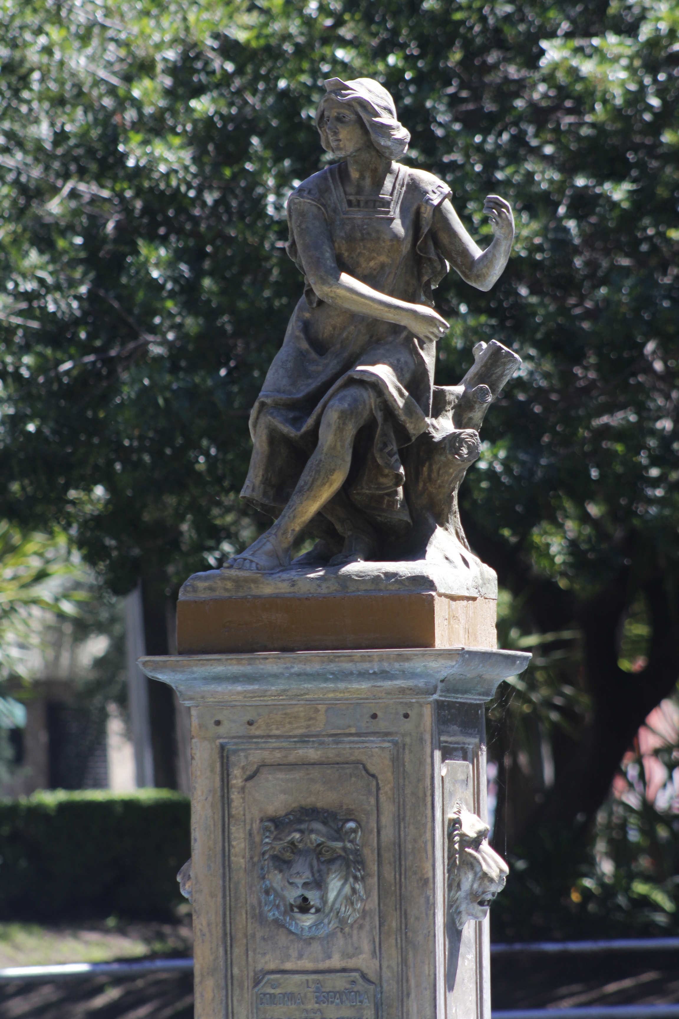 Estatua de la fuente del parque Hidalgo, Pachuca, Hidalgo.